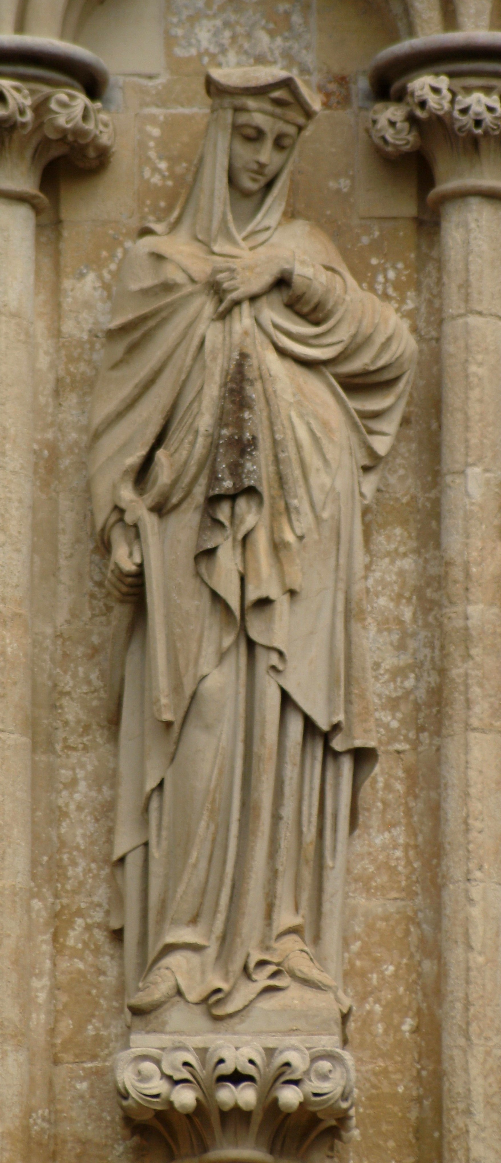 Statue of St Agatha on the West Front of Salisbury Cathedral, UK.